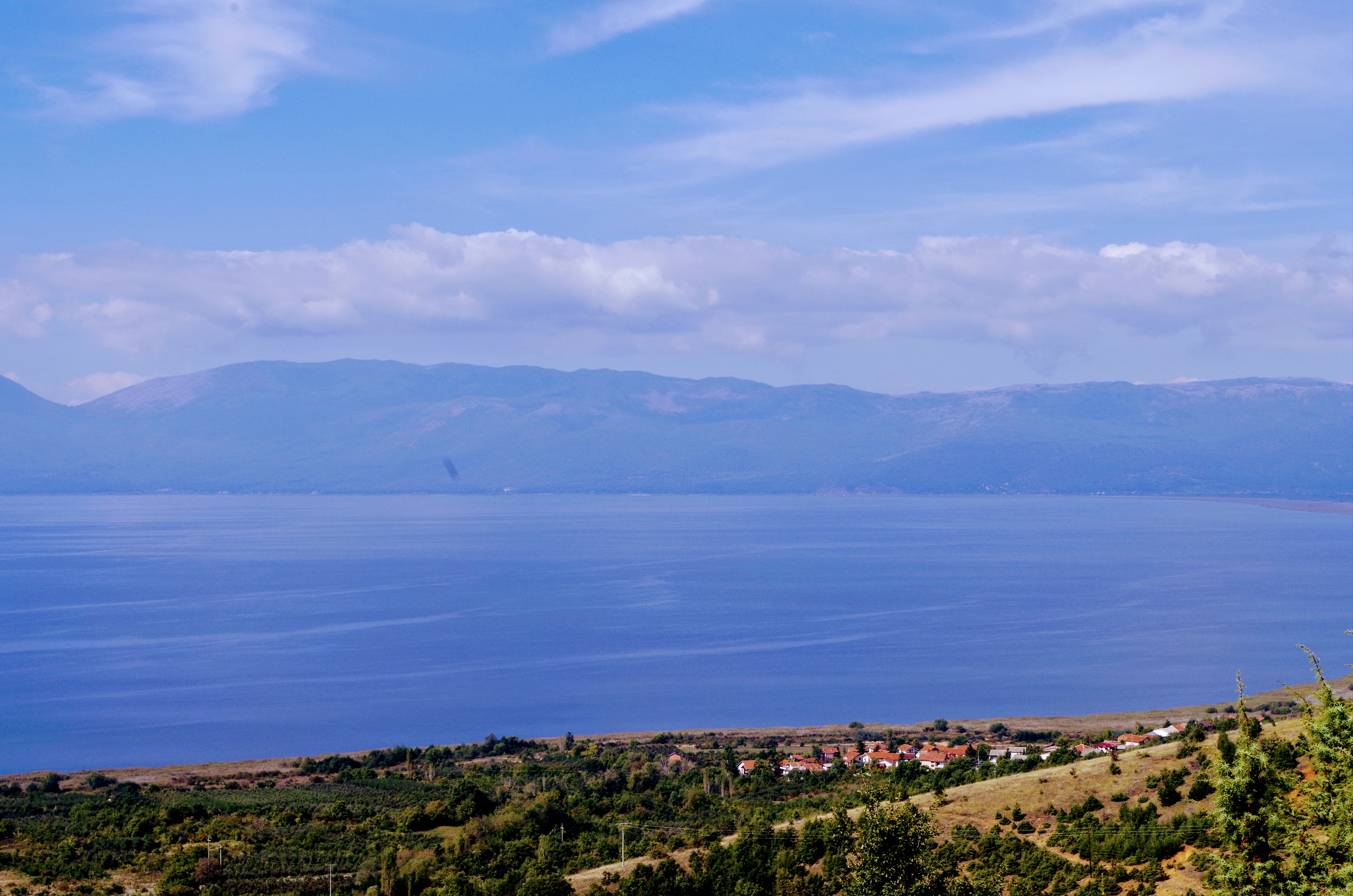 View of the village Pretor